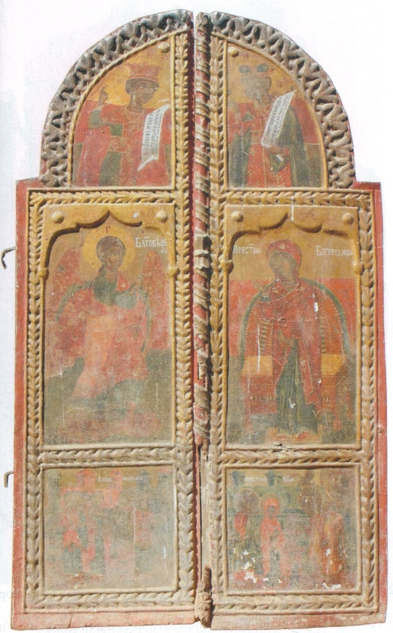 Royal Doors in Saint Athanasius Church in Dolno Dupeni, First Half of 17th Century